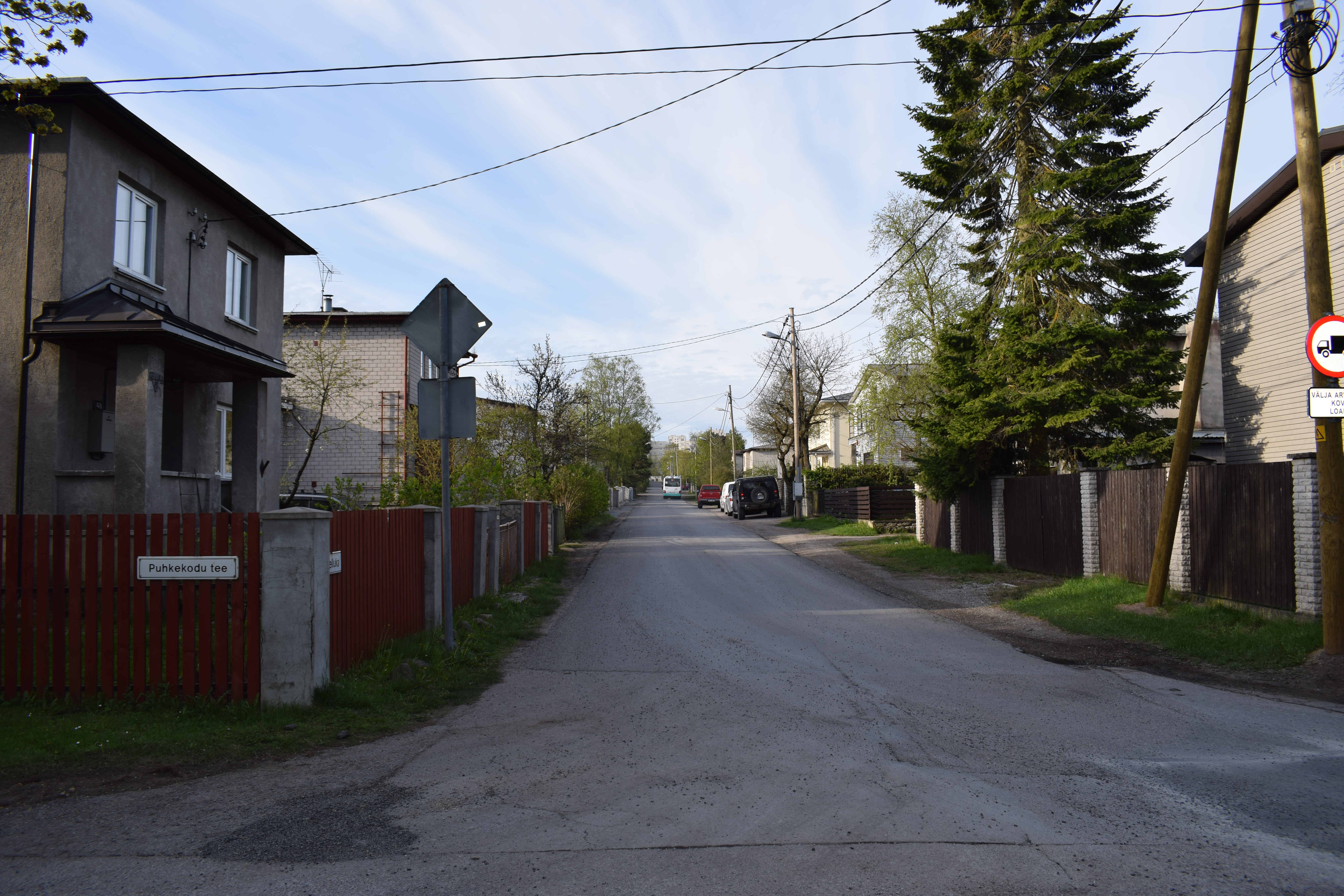 Kelluka street